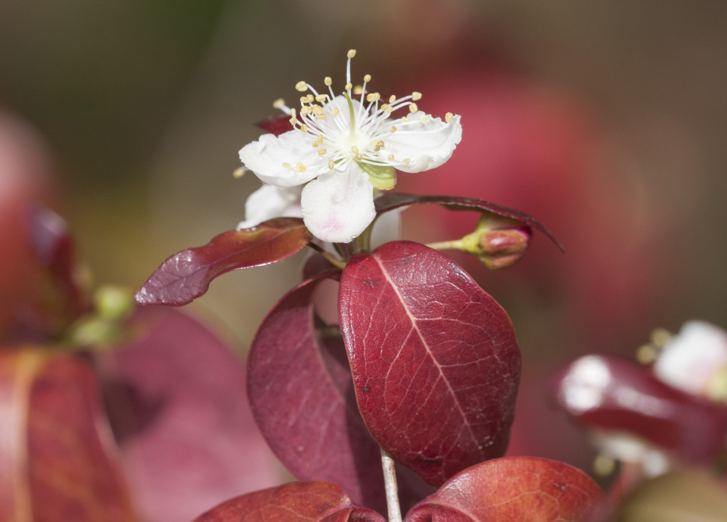 Flower of Surinam cherry (Eugenia uniflora ). Balcalı - Adana, Turkey.